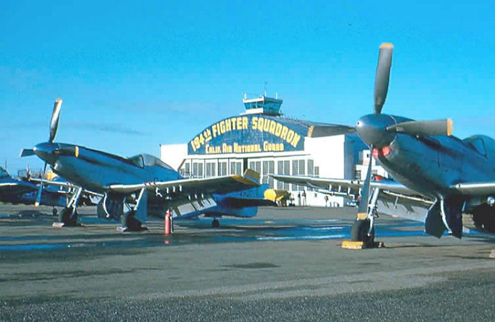 194th Fighter Squadron - North American F-51Ds on ramp Hayward Air National Guard Base, California, 1949